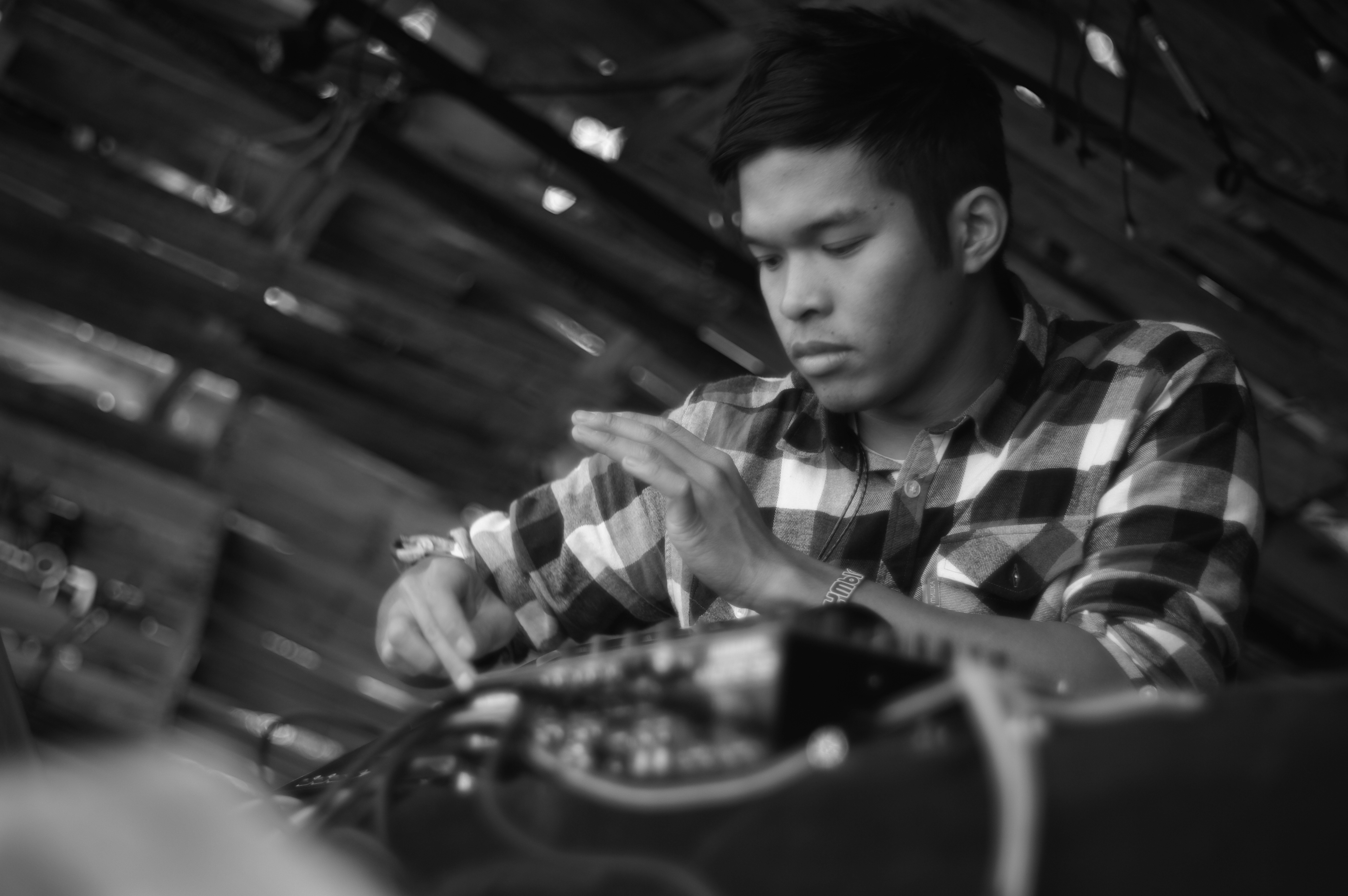 edIT (Edward Ma), Symbiosis Gathering, 2009. Shot during the performance Crying Over Porcelain For No Reason with Josh Mayer (Ooah). Ma is playing his Lemur